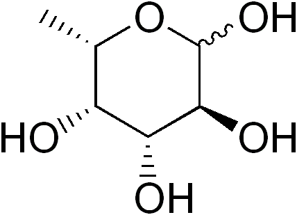 Chemical structure of fucose